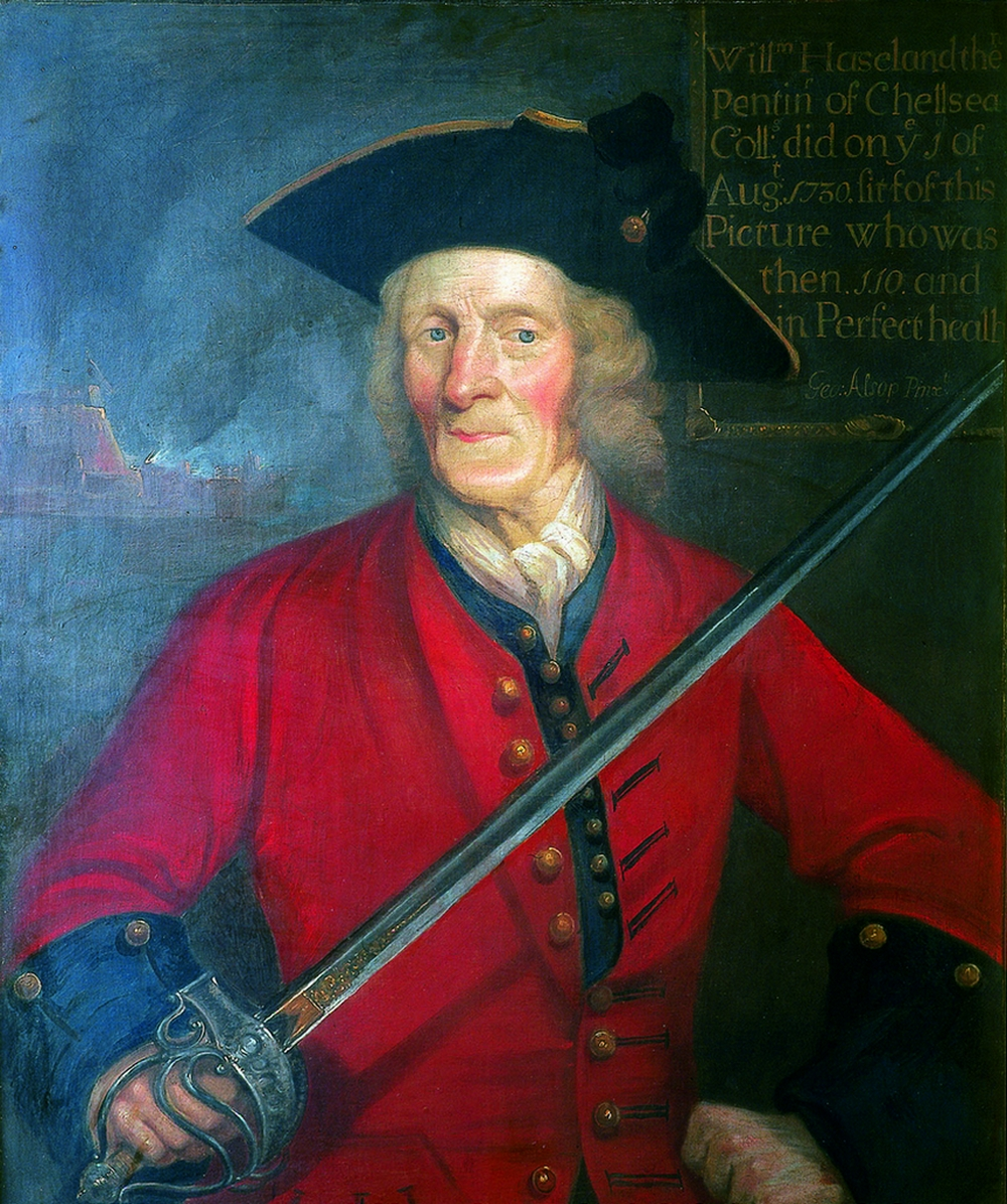 The picture shows the allegedly supercentenarian soldier William Hiseland. It is the same picture as this: which, however, has the wrong surname. (Easily verified, since he is identified as William in the text on the painting itself.)